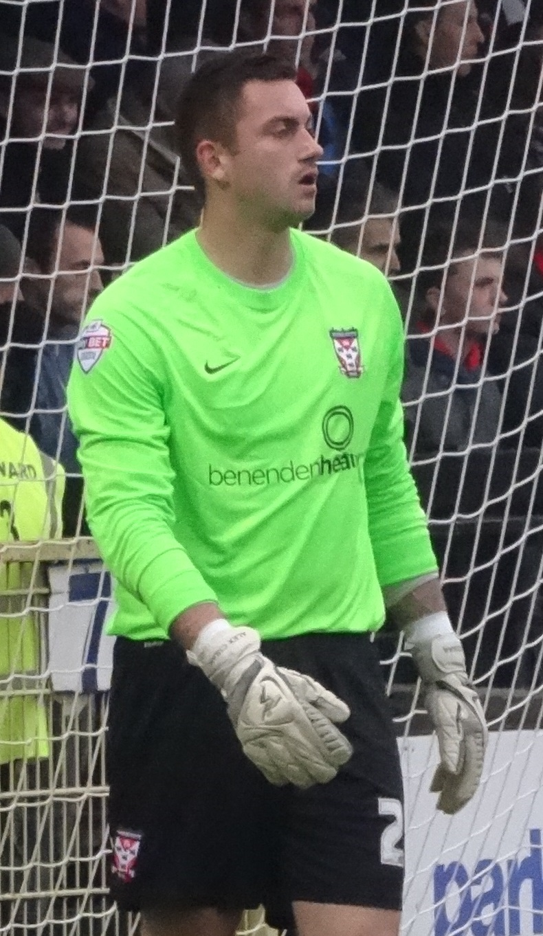 Alex Cisak playing for York City against Oxford United at Bootham Crescent, York on 15 November 2014